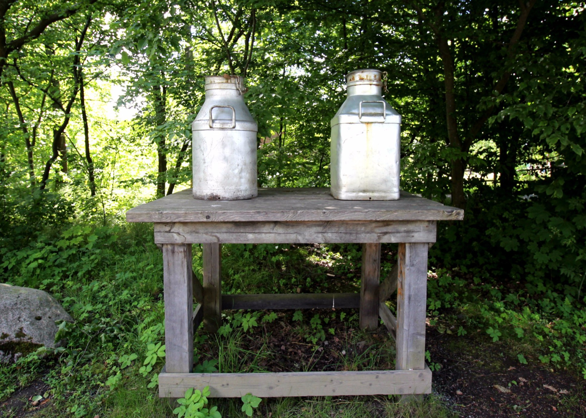 Milk bridge in Skansen, Stockholm, Sweden